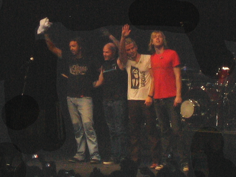 Lifehouse's concert at Araneta Coliseum, Quezon City, Philippines on July 26, 2008. From left: Ben Carey (Touring Guitarist), Rick Woolstenhulme Jr., Jason Wade and Bryce Soderberg